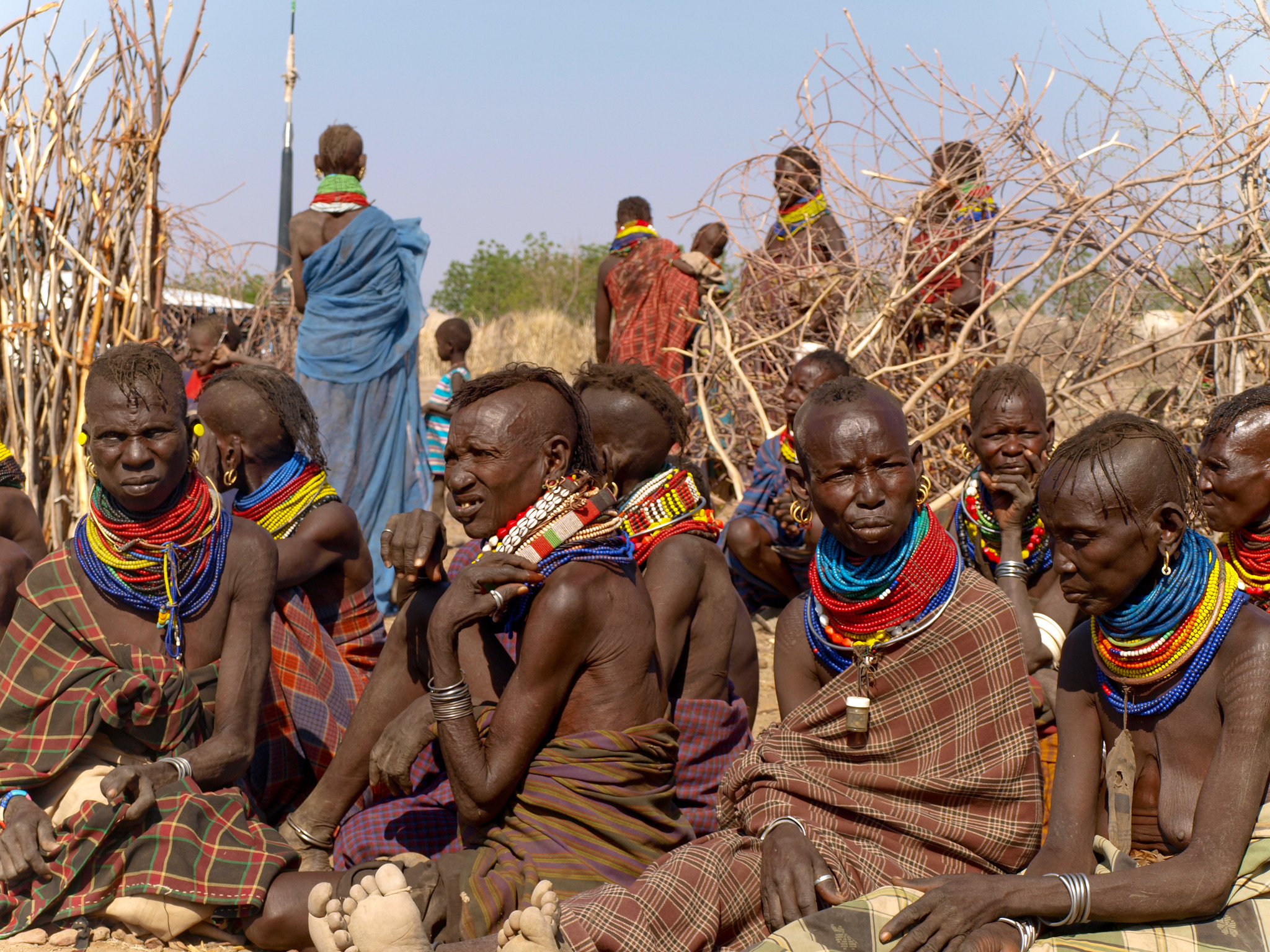 Traditionally, the men of Turkana marry after delivering a bride price to the bride’s family, consisting of a predetermined number of head of livestock. The drought and the loss of livestock have paralyzed all of these celebrations, which are an essential cultural component of pastoral communities. Photo: Irina Fuhrmann/Oxfam